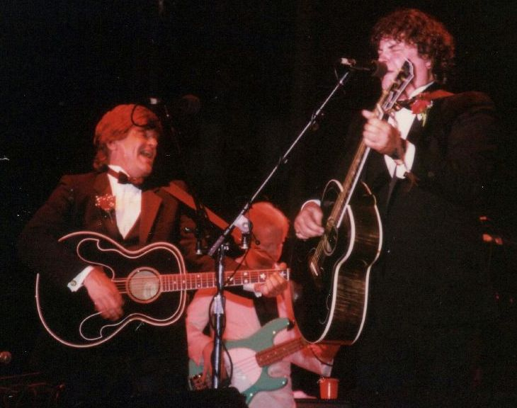 Everly Brothers at Central City, Kentucky.